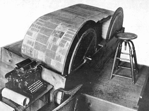 Orville Ward Owen's "cipher wheel", which he used to decipher the cryptograms in Shakespeare's works and prove that Bacon was the true author